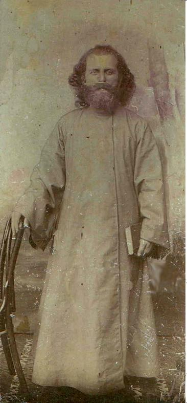 Teacher Nestor Ckhakaia (19th Century, Village Koki, Zugdidi District, Georgia)